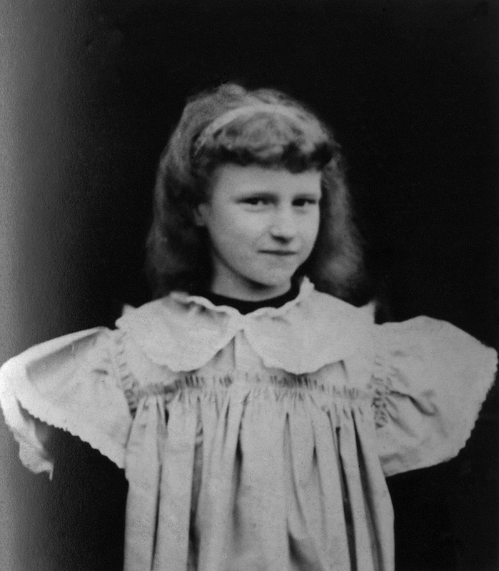 by unknown photographer, copied by Elliott & Fry, half-plate glass copy negative, 1890s